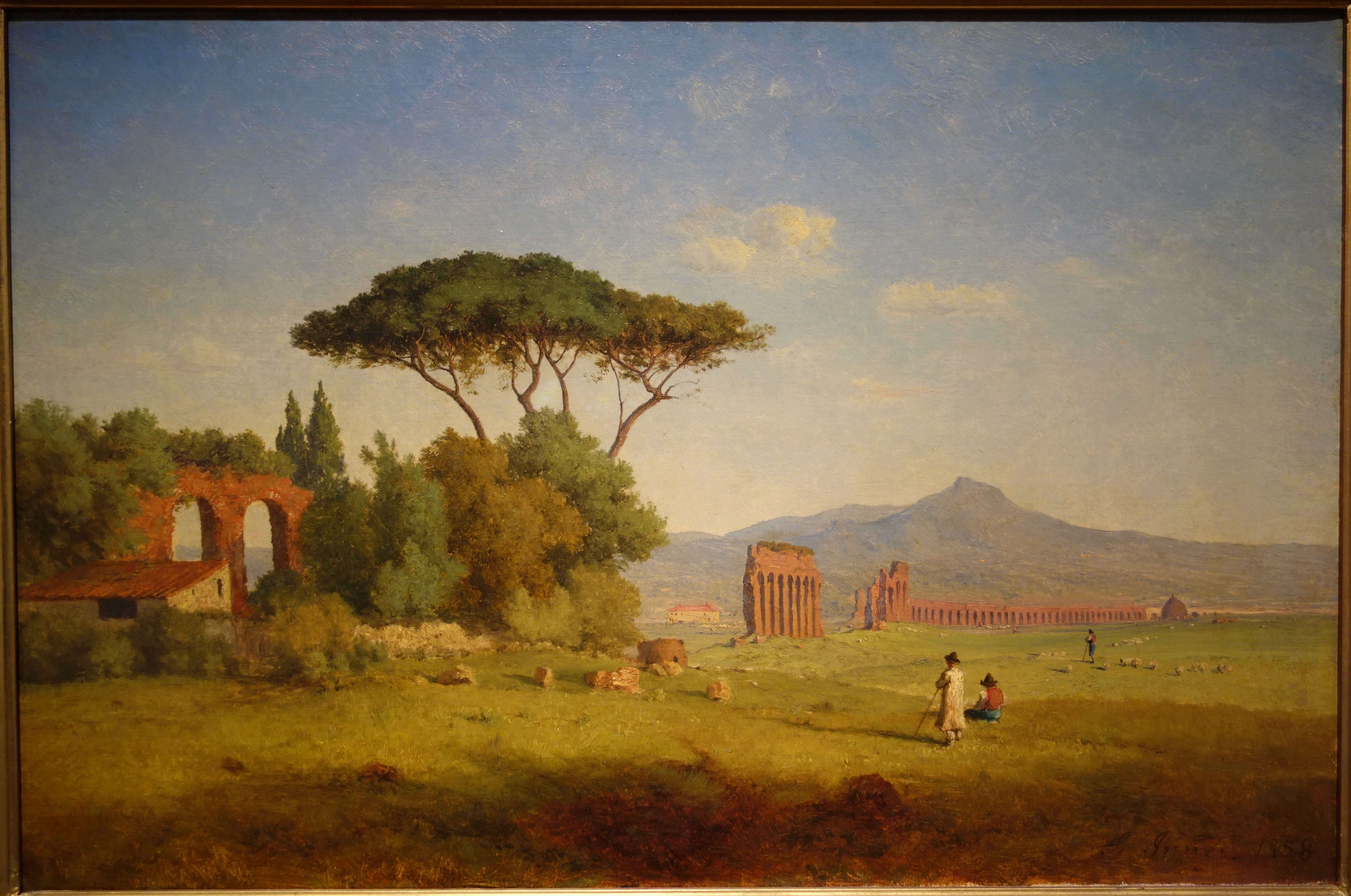 Exhibit in the New Britain Museum of American Art, New Britain, Connecticut, USA. This artwork is in the public domain because the artist died more than 70 years ago. The museum permitted photographs of this exhibit without restriction.